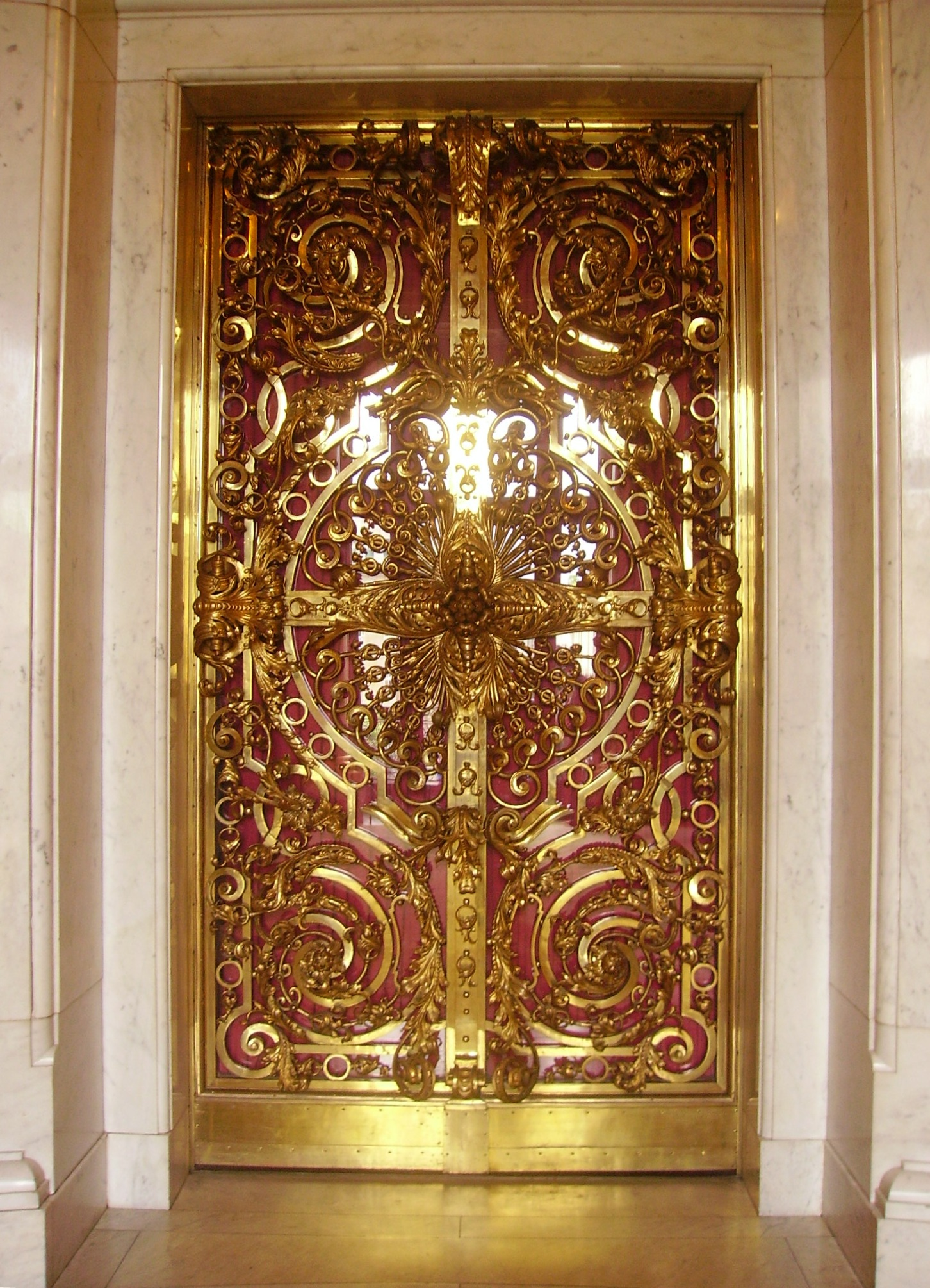 Door of the Tower Room at the City Hall, Hamburg